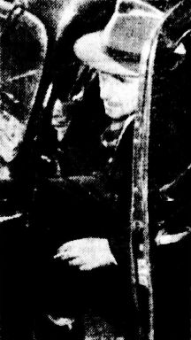 Photograph of Lance Sharkey alighting from car to go to trial for sedition 30 March 1949